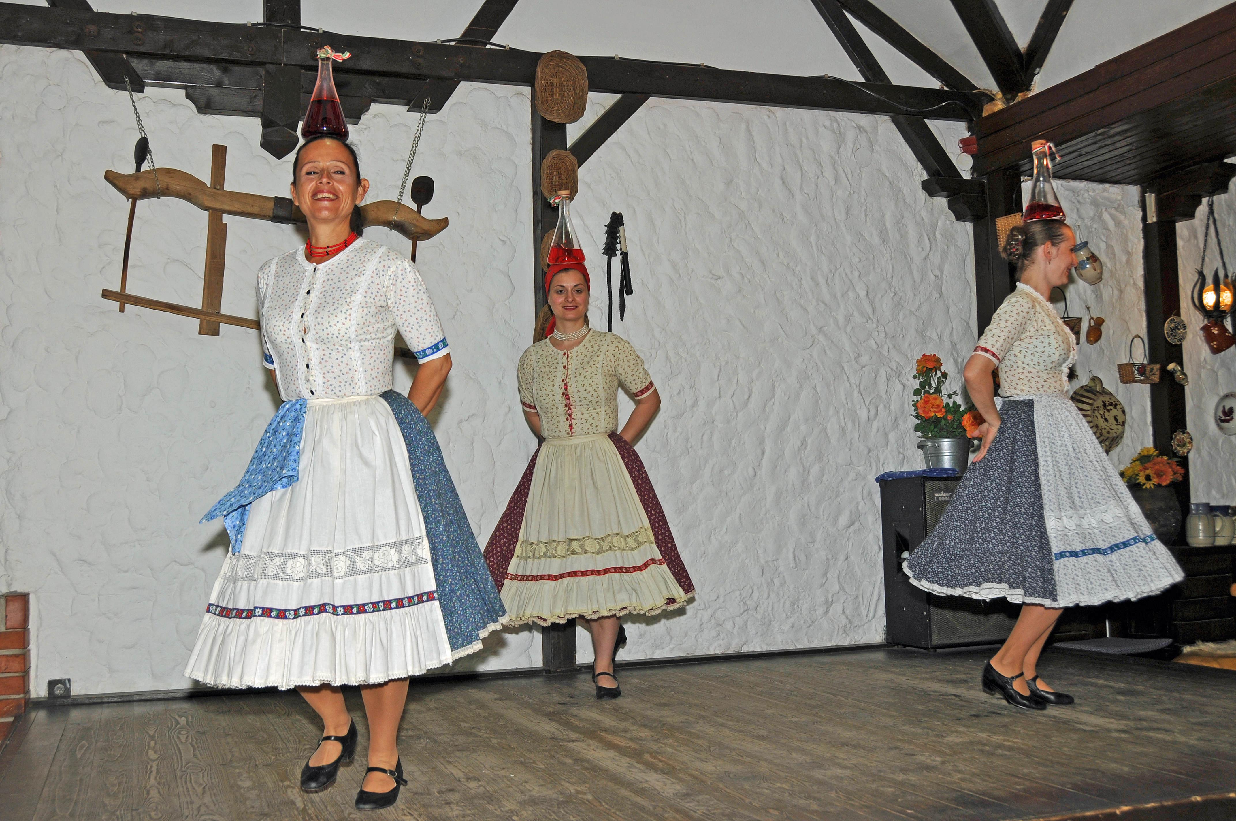 PLEASE, no multi invitations, glitters or self promotion in your comments, THEY WILL BE DELETED. My photos are FREE for anyone to use, just give me credit and it would be nice if you let me know, thanks - NONE OF MY PICTURES ARE HDR. A Hungarian evening with a program of Hungarian folklore and Gypsy music.